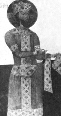 A 16th-century mural from Zarzma monastery, today's Samtskhe-Javakheti region, depicting King Bagrat III of Imereti